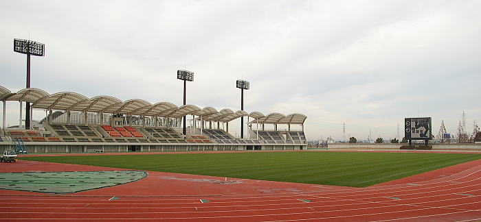 Wavestadium Kariya. Kariya City,Aichi Pref,Japan